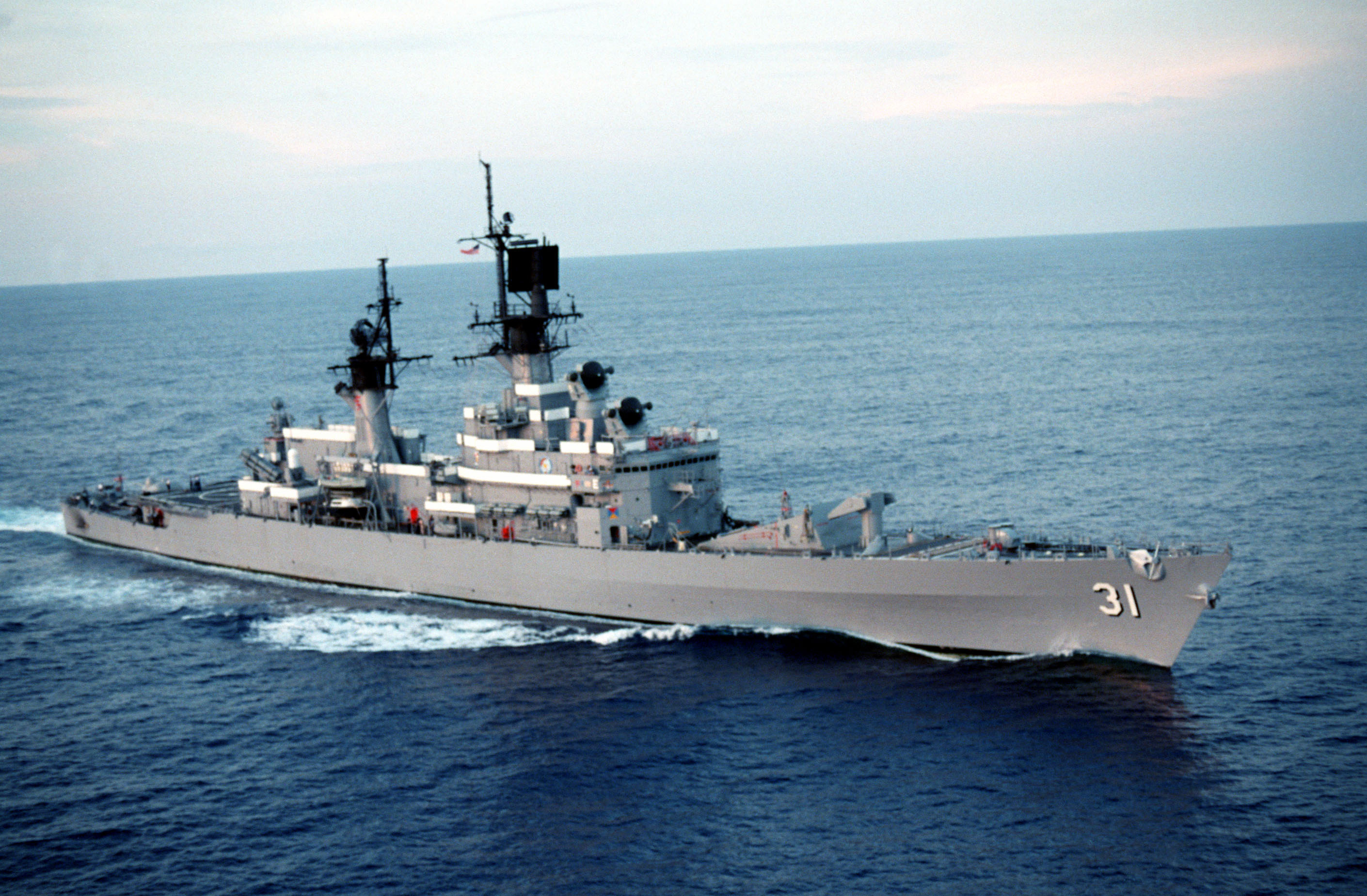 The U.S. Navy guided missile cruiser USS Sterett (CG-31) underway on 7 September 1990.